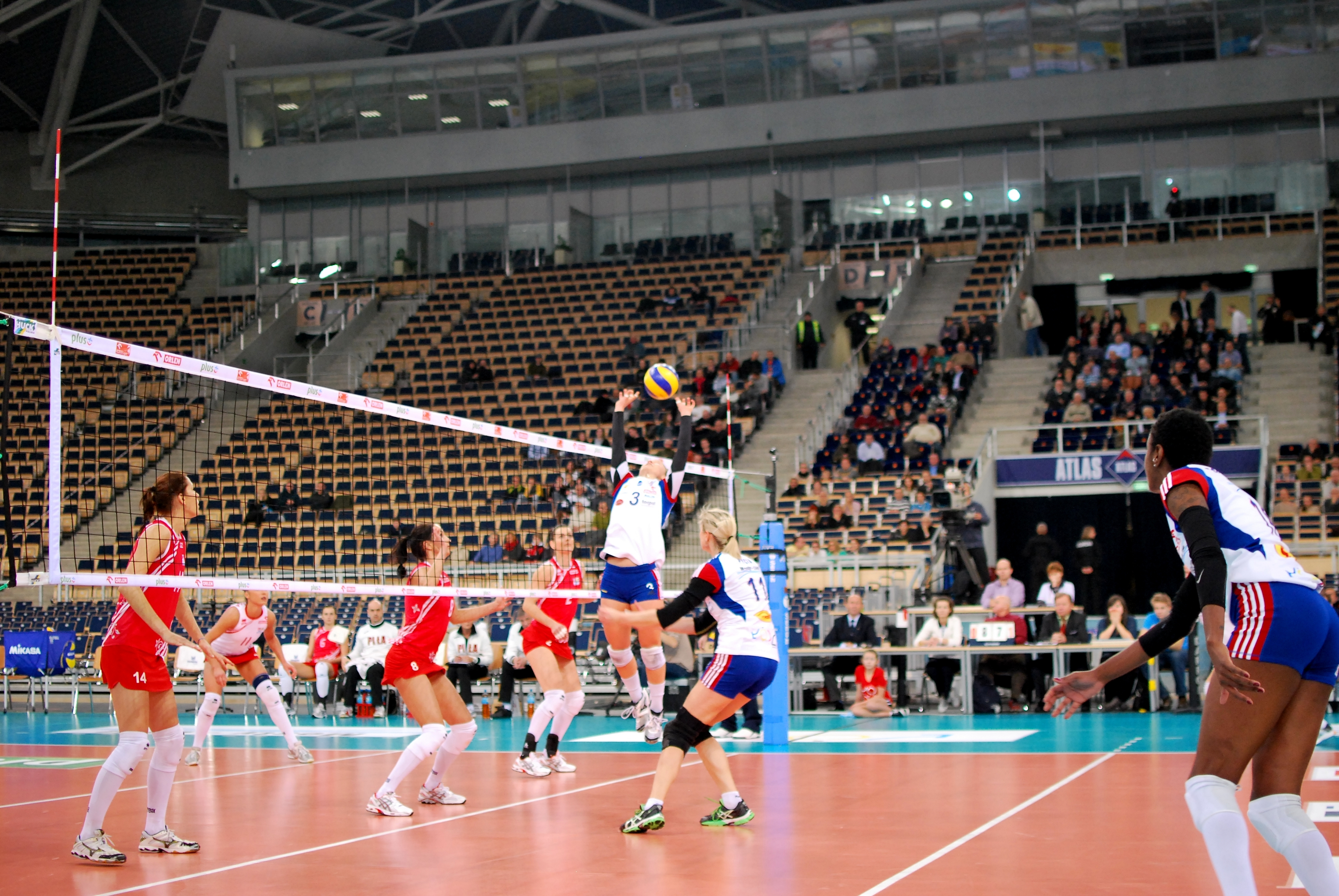 Courtney Thompson is setting. Budowlani Łódź vs PTPS Piła (2012-10-29)